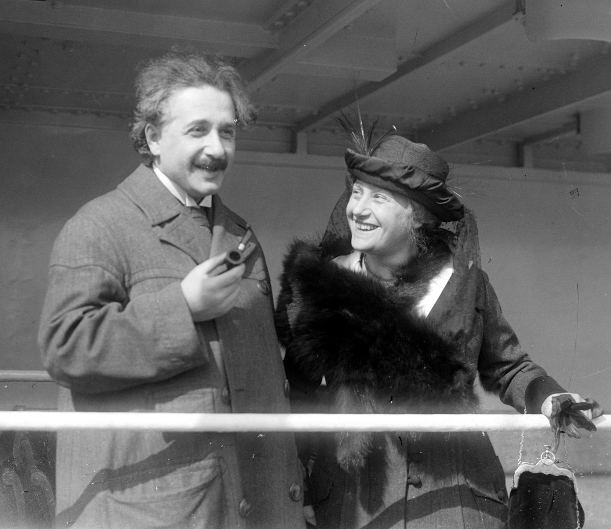 Albert Einstein with his wife Elsa. Date not recorded. Fur collar from fox or skunks.